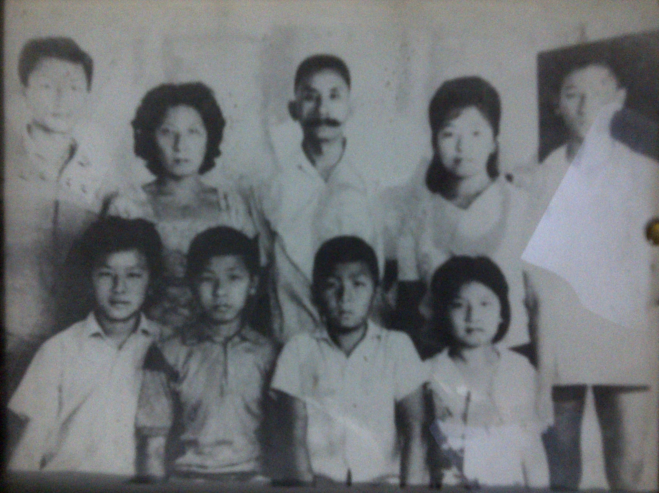 1967 photo of Chinese-Indonesian Peng (彭) family from Hubei ancestry